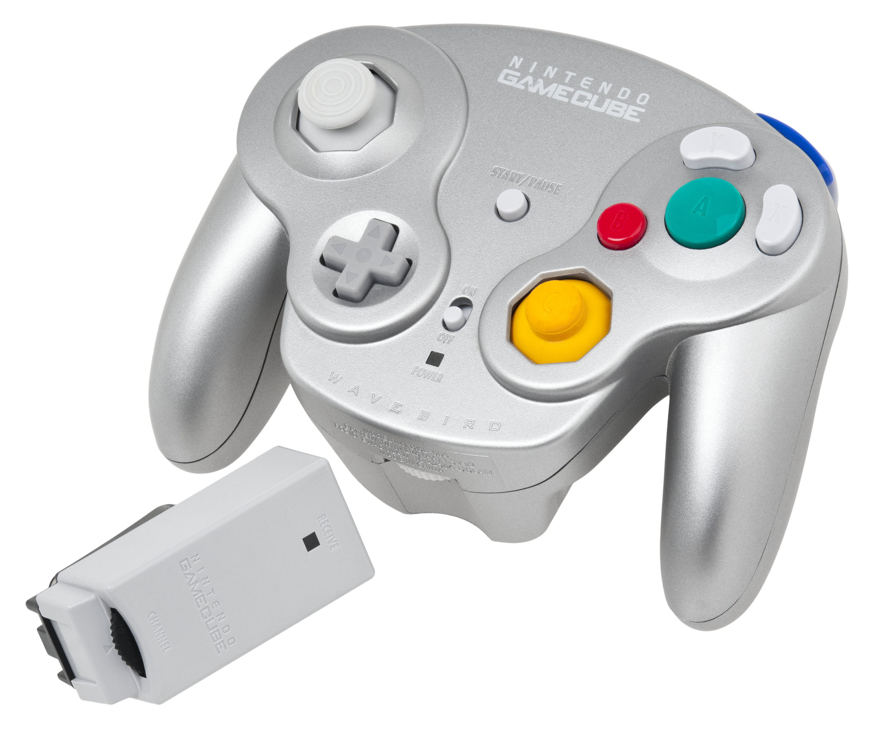 The Nintendo Wavebird wireless controller, for the GameCube.